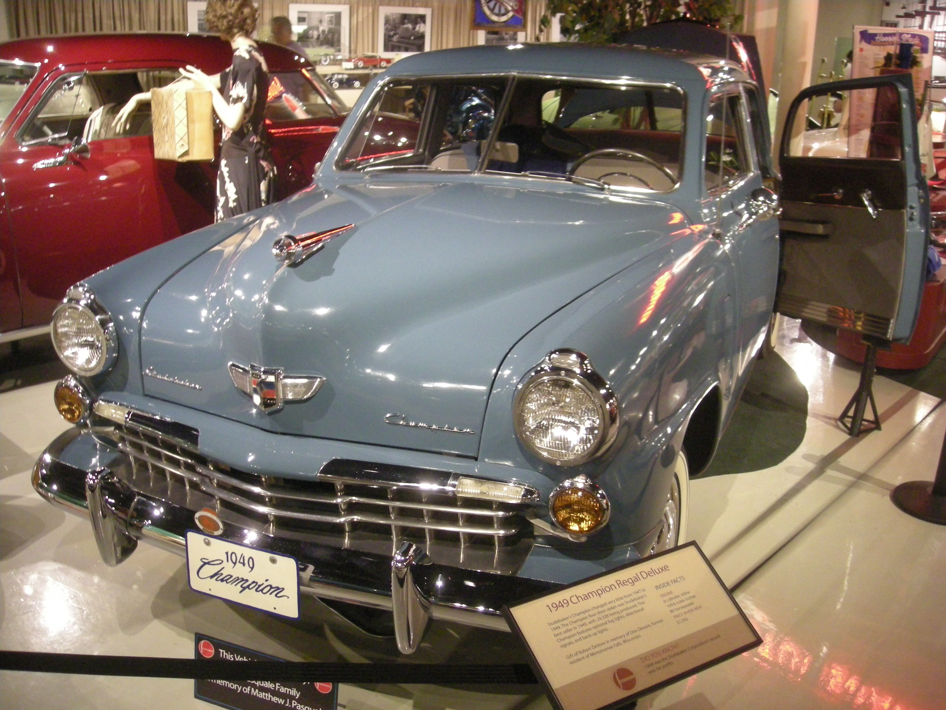 A 1949 Studebaker Champion Regal Deluxe at the Studebaker National Museum in South Bend, Indiana (United States).